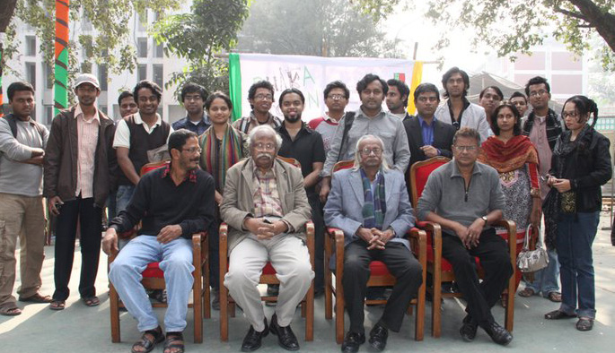 1st Cartoon exhibition arranged by BANCARAS on January 2011